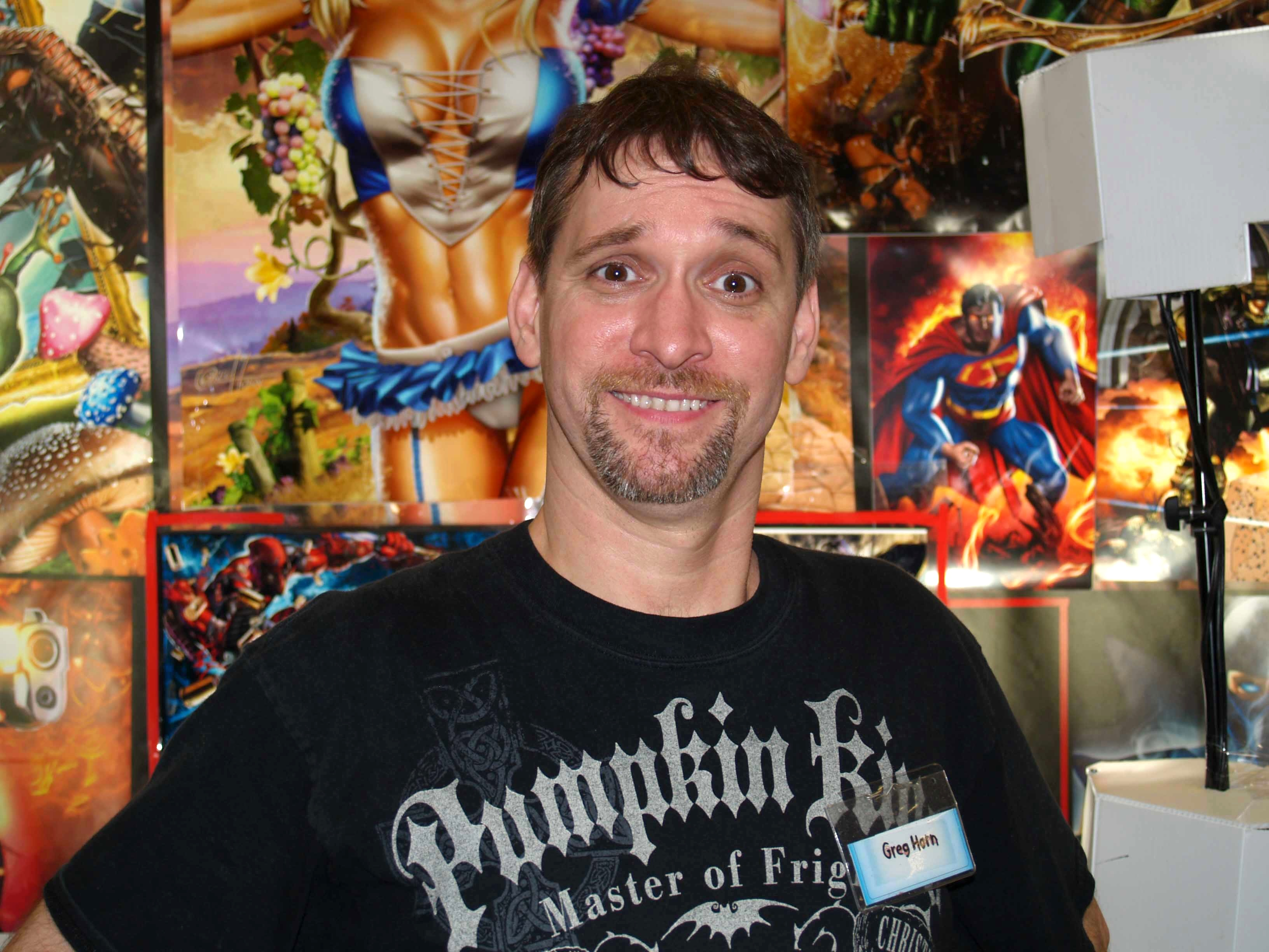 Comics artist Greg Horn at the 2013 Wizard World New York Experience Comic Con, at Pier 36 in Manhatan, June 30, 2013. This photo was created by Luigi Novi. It is not in the public domain, and use of this file outside of the licensing terms is a copyright violation.